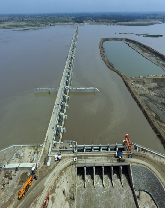 New Khanki Barrage which has replaced the Old Khanki Barrage which was built during the British era.